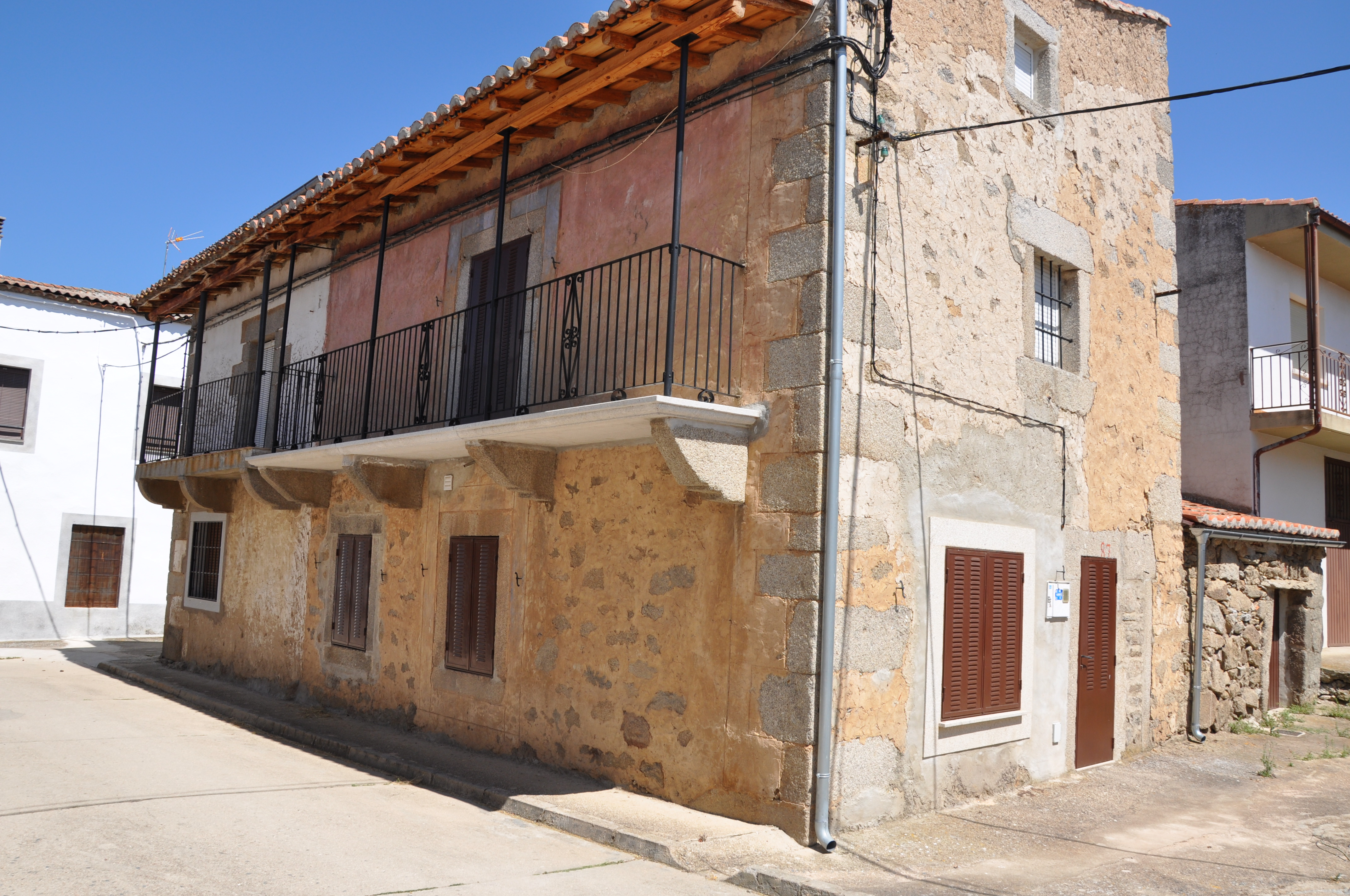 Native architecture in Junciana, Ávila, Spain